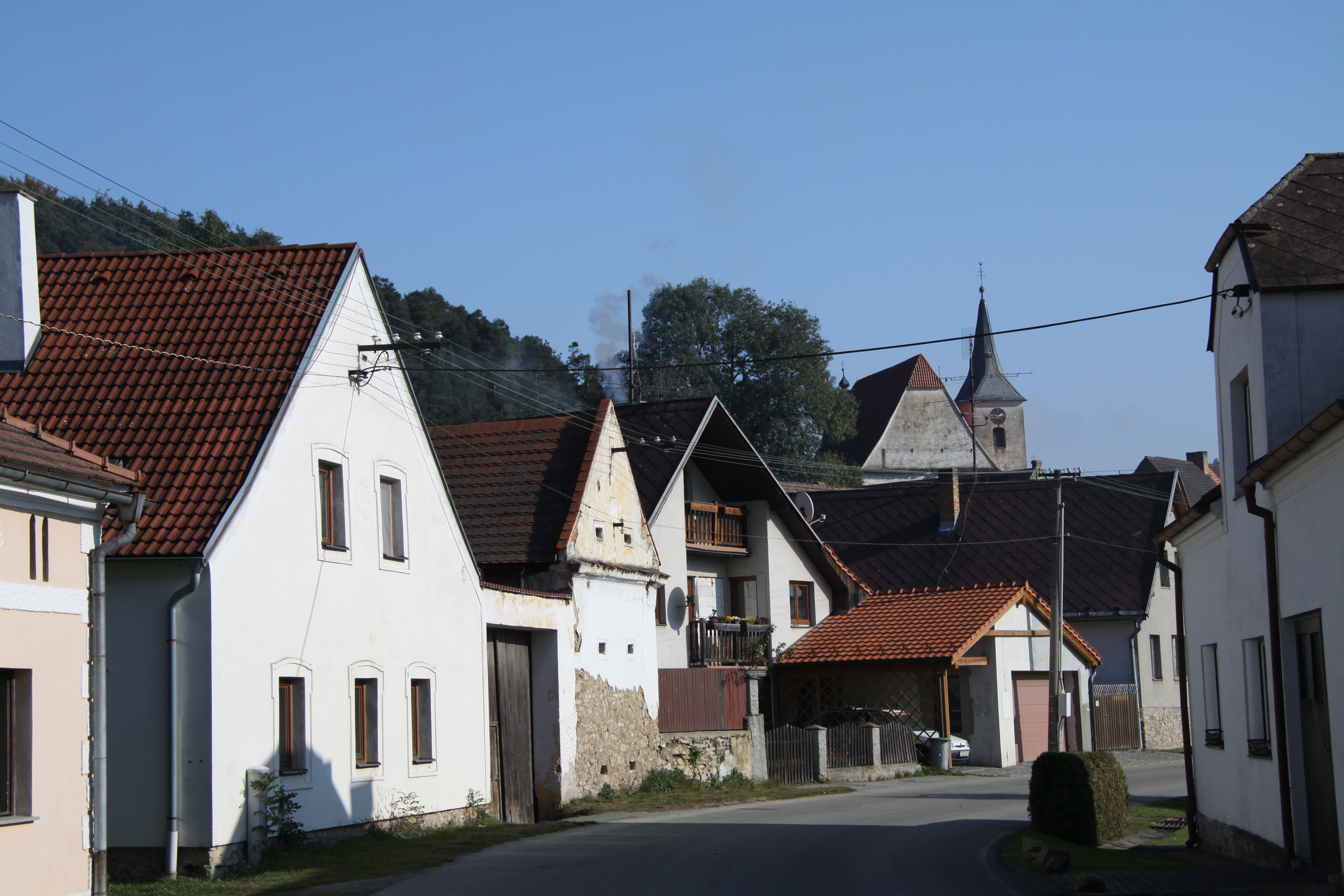 Brloh village in Český Krumlov District, Czech Republic